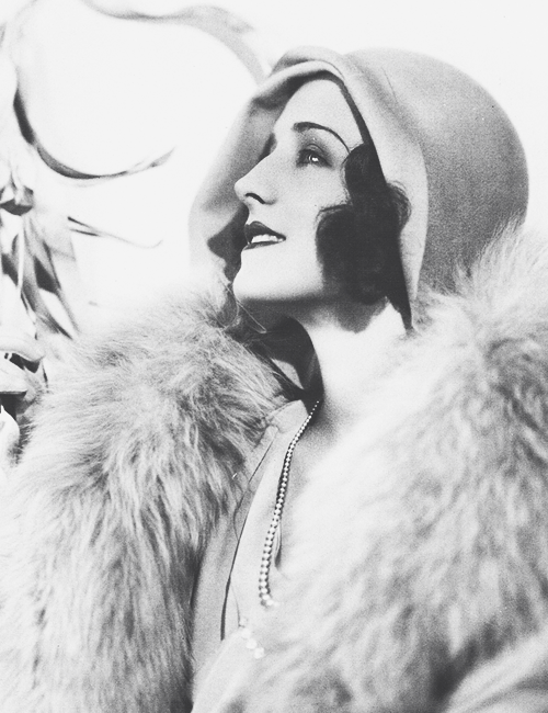 Norma Shearer (full picture)